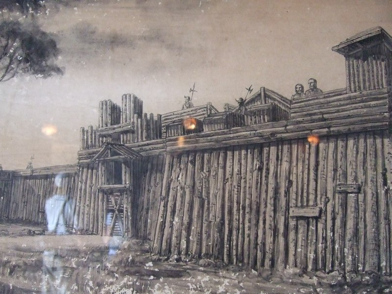 photographed from an illustration hung inside the fort